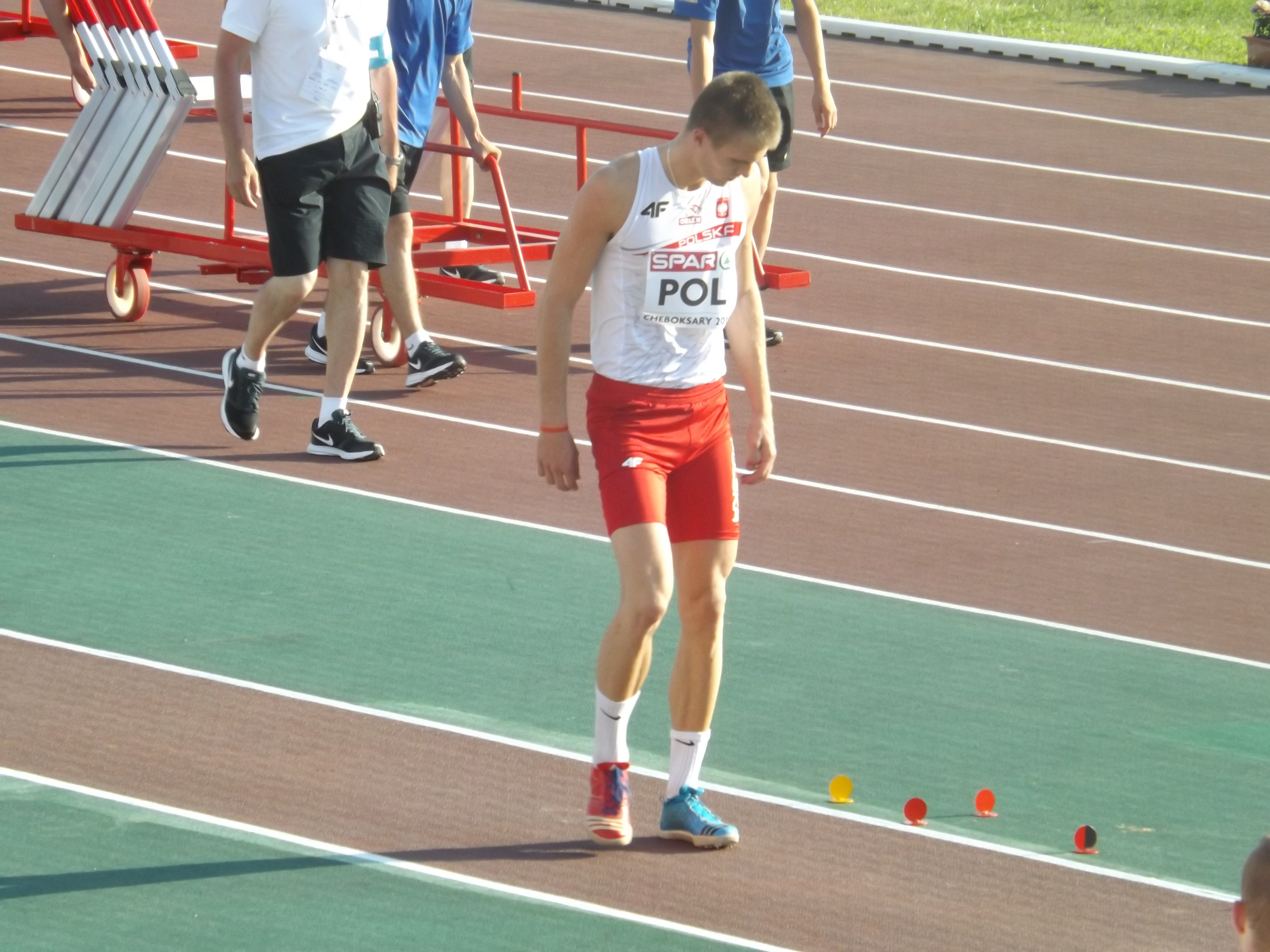 Polish long jumper Tomasz Jaszczuk during 2015 European Team Champioships